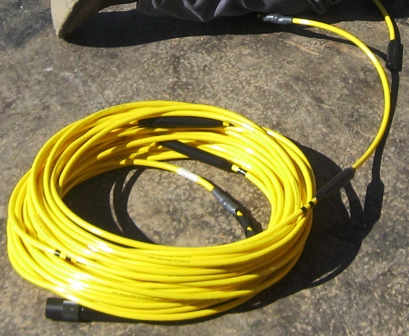 KCF Smart Tether